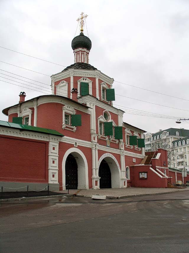 Conception monastery, Moscow, barbican church